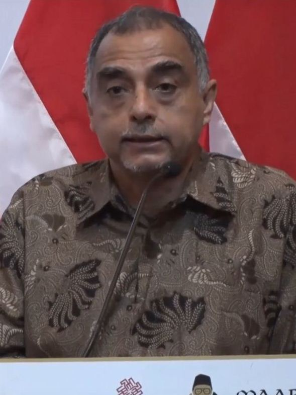 Haidar Bagir as a speaker at the Forum Titik Temu, a gathering place for civil society oriented to the Cultural Movement, organized by the Nurcholish Madjid Society, the Gusdurian Network, and the Maarif Institute.